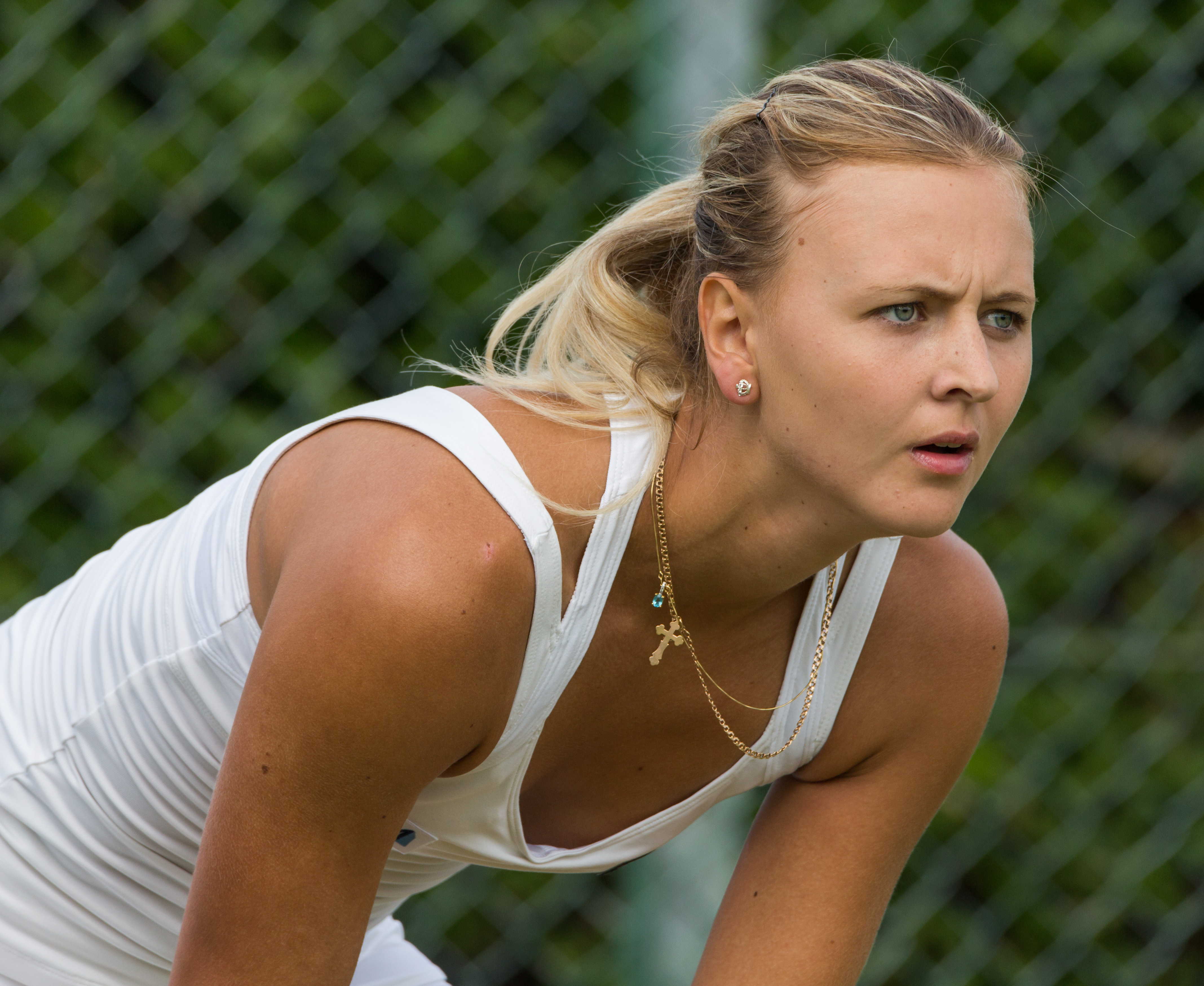 Maryna Zanevska competing in the first round of the 2015 Wimbledon Qualifying Tournament at the Bank of England Sports Grounds in Roehampton, England. The winners of three rounds of competition qualify for the main draw of Wimbledon the following week.